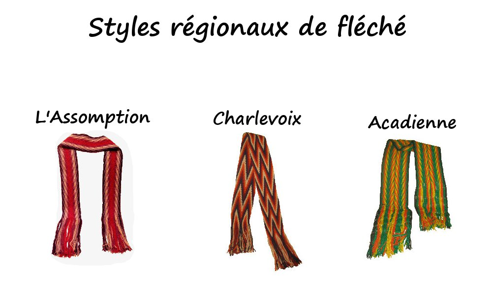 Regional styles of the arrow sash (ceinture fléchée)